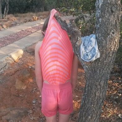 A girl in a hanging wedgie